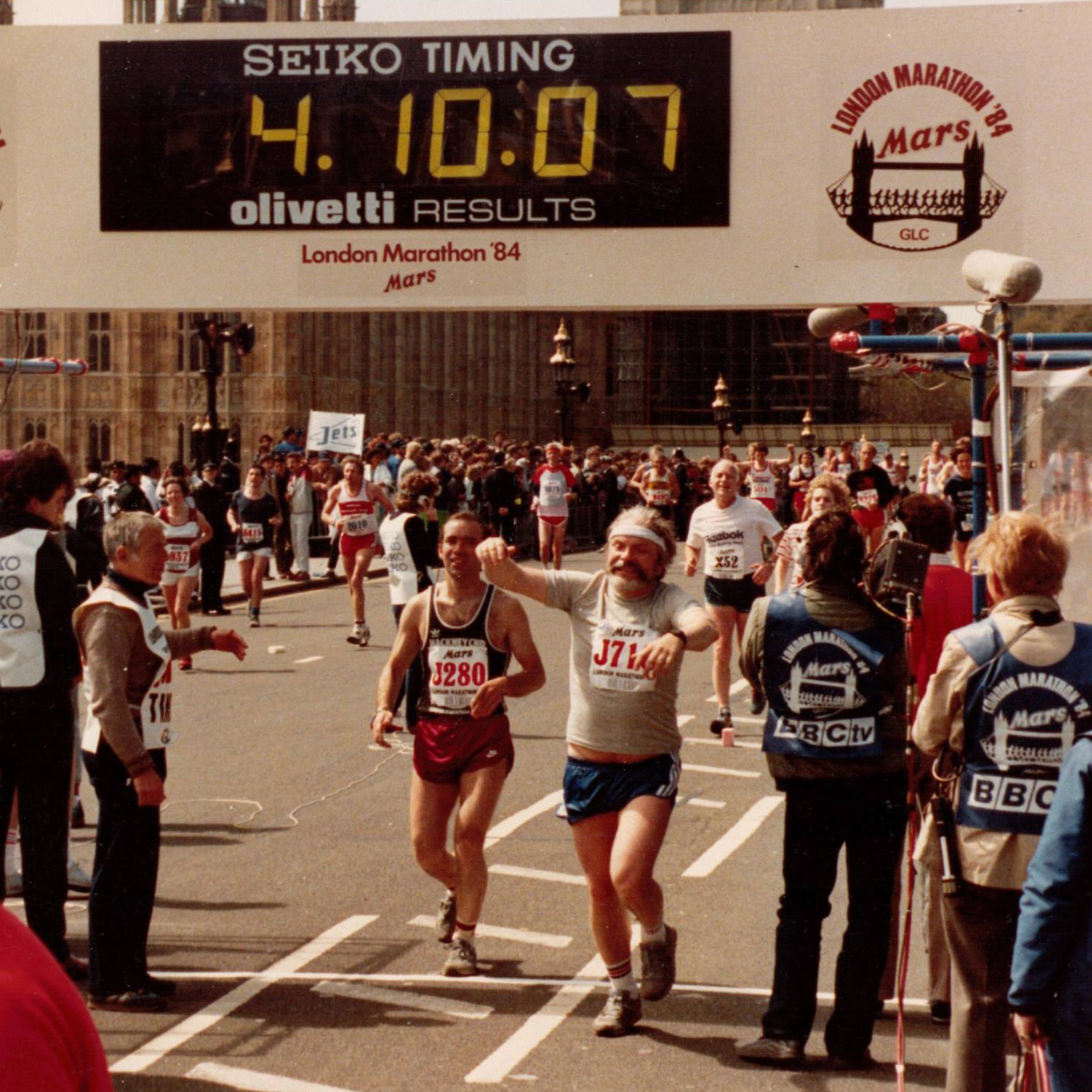 Pauli Vahtera finish his first marathon in London in 1984.